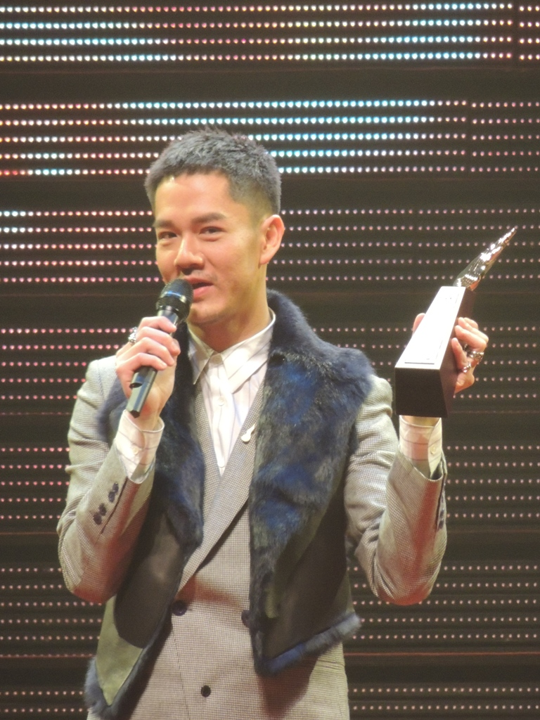 Ultimate Song Chart Awards 2013